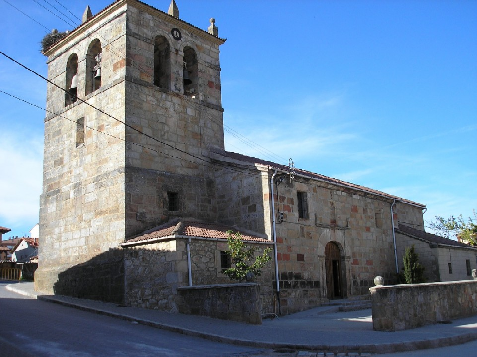 taken by Valdoria.May 2006